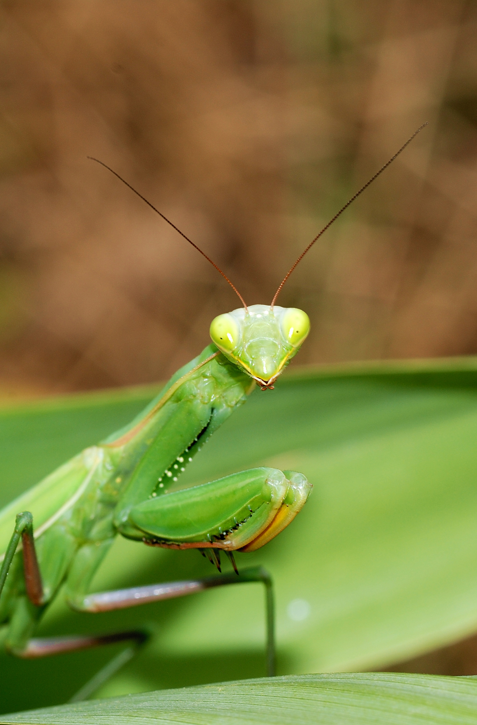 Mantis religiosa. Lisboa, Portugal.